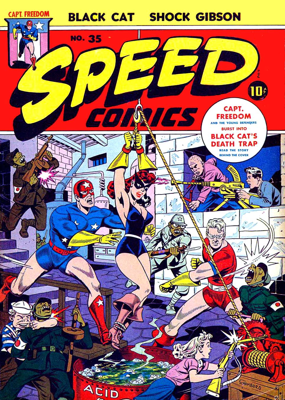 Action packed cover of Speed comics number 35, featuring Black Cat, Shock Gibson, Captain Freedom and the Young Defenders. Artwork by Alex Schomburg, November 1944. With the war in full swing, patriotically-themed comic books were an important source of propaganda.